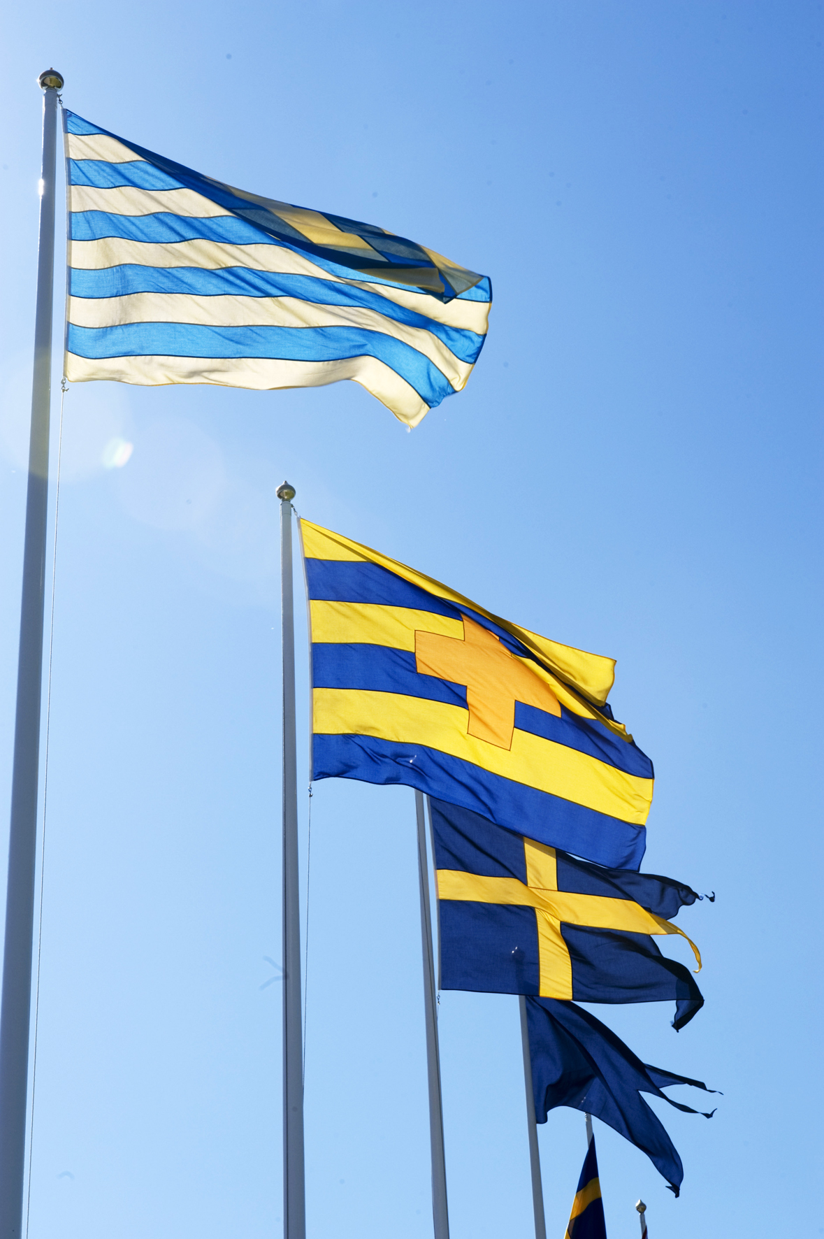 Swedish historical flags flown at the Maritime Museum in Stockholm.